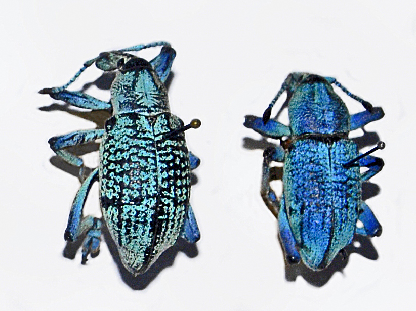 Eupholus azureus. Museum specimen. On display at the Civico Museo di Storia Naturale di Trieste